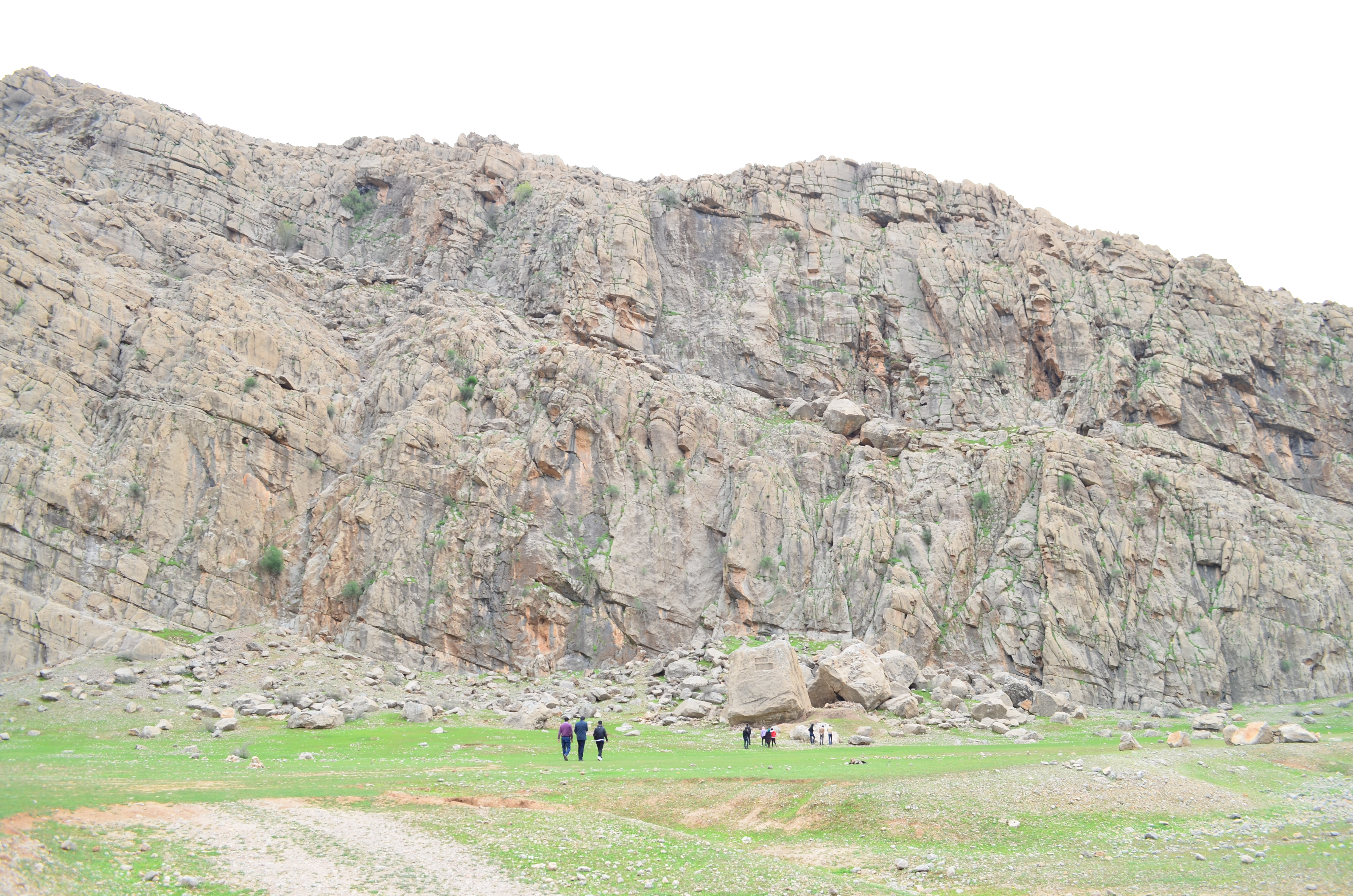 Khong Azhdar